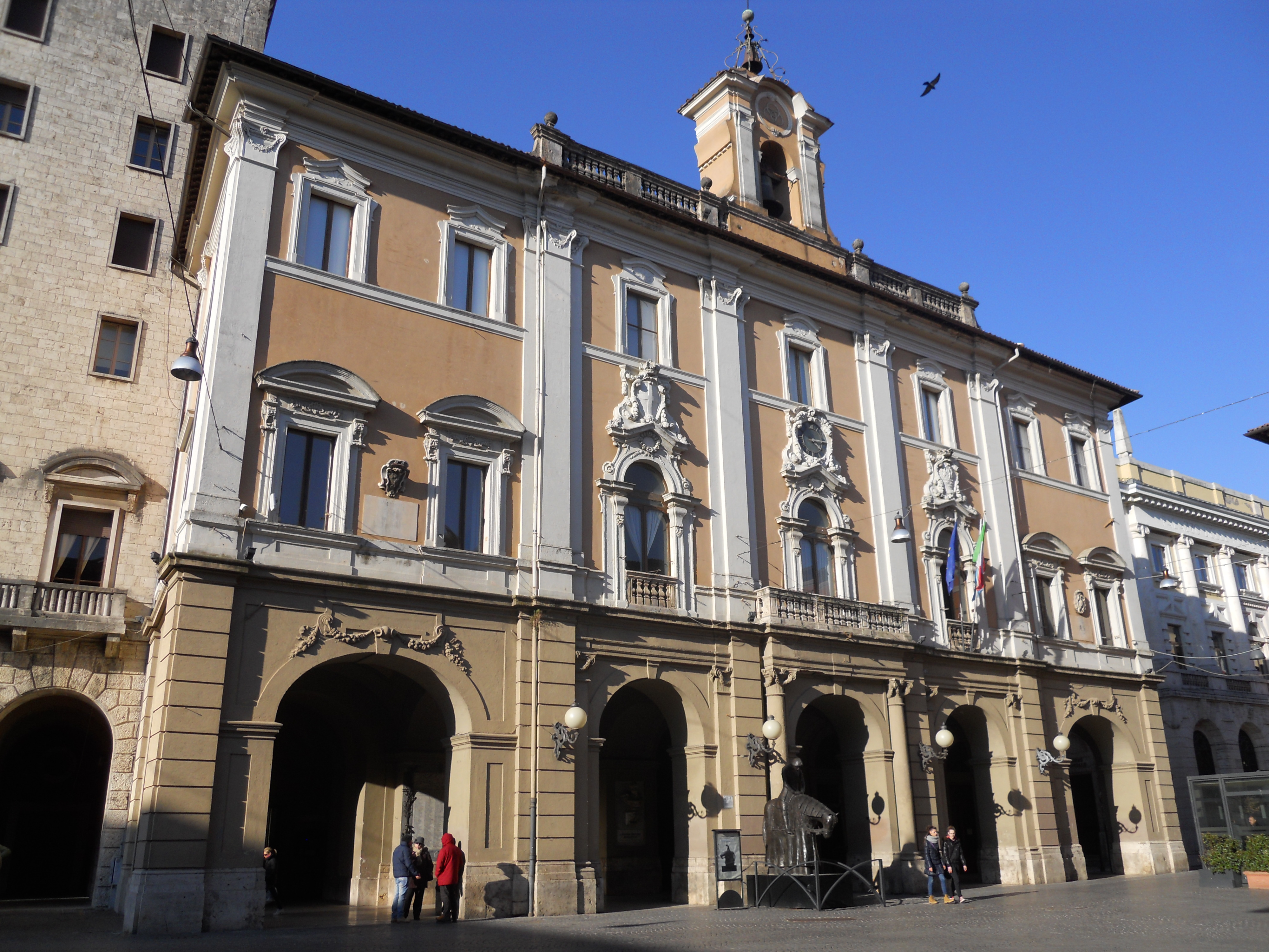 Palazzo Comunale's facade - Rieti